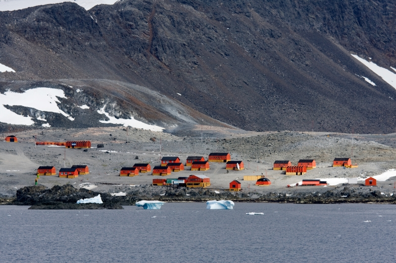 Argentinian station Esperanza